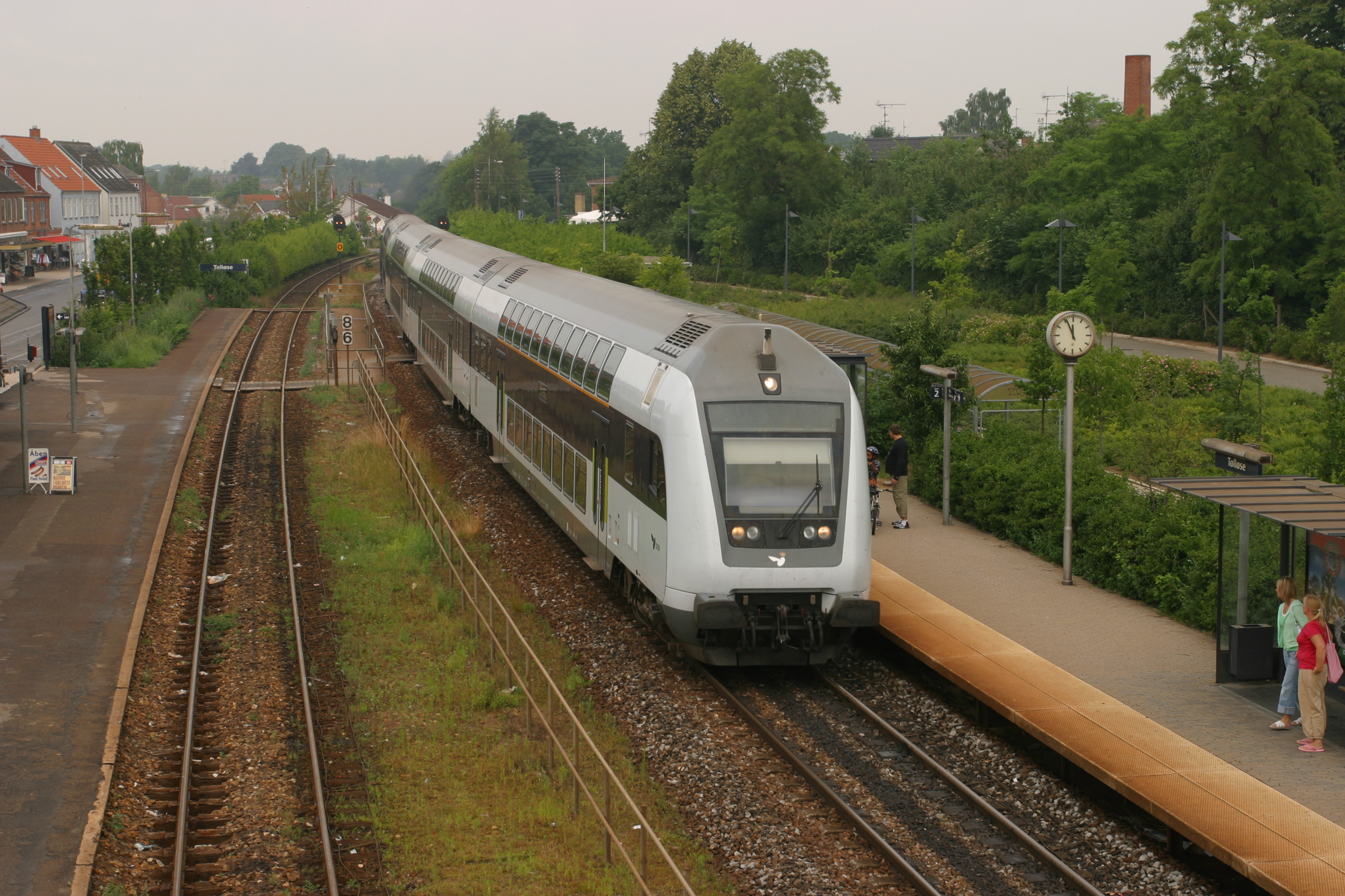 Picture of Tølløse Railway Station (Tølløse - Denmark)